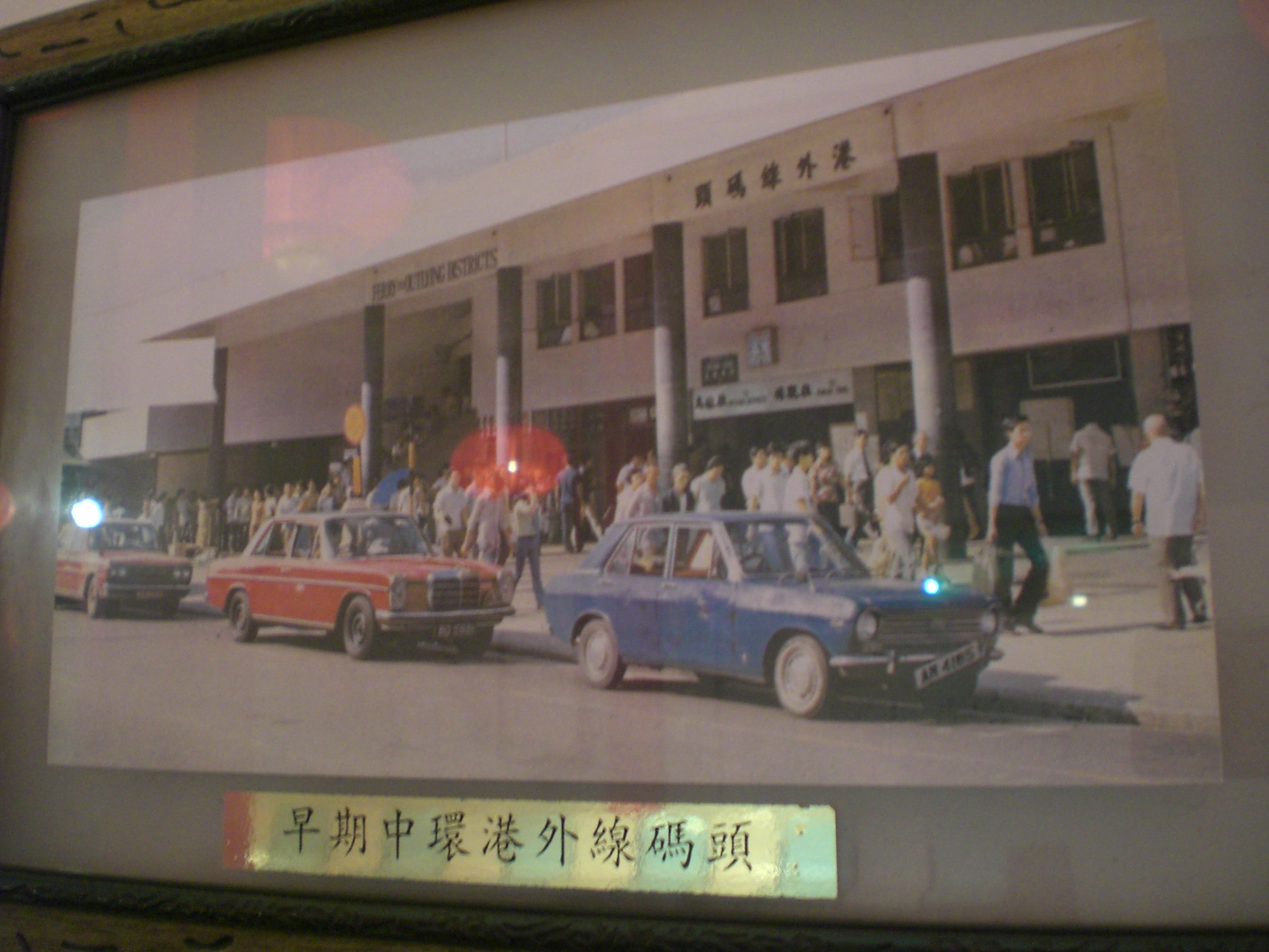 "Ferry to Outlying Dostrict"